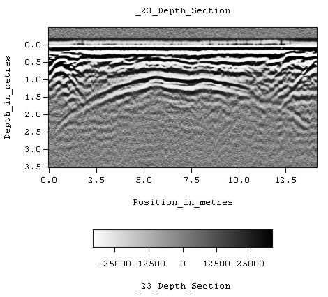 Ground penetrating radar Depth slice (profile view) showing the domed roof of a large subterranean crypt in an historic cemetery.